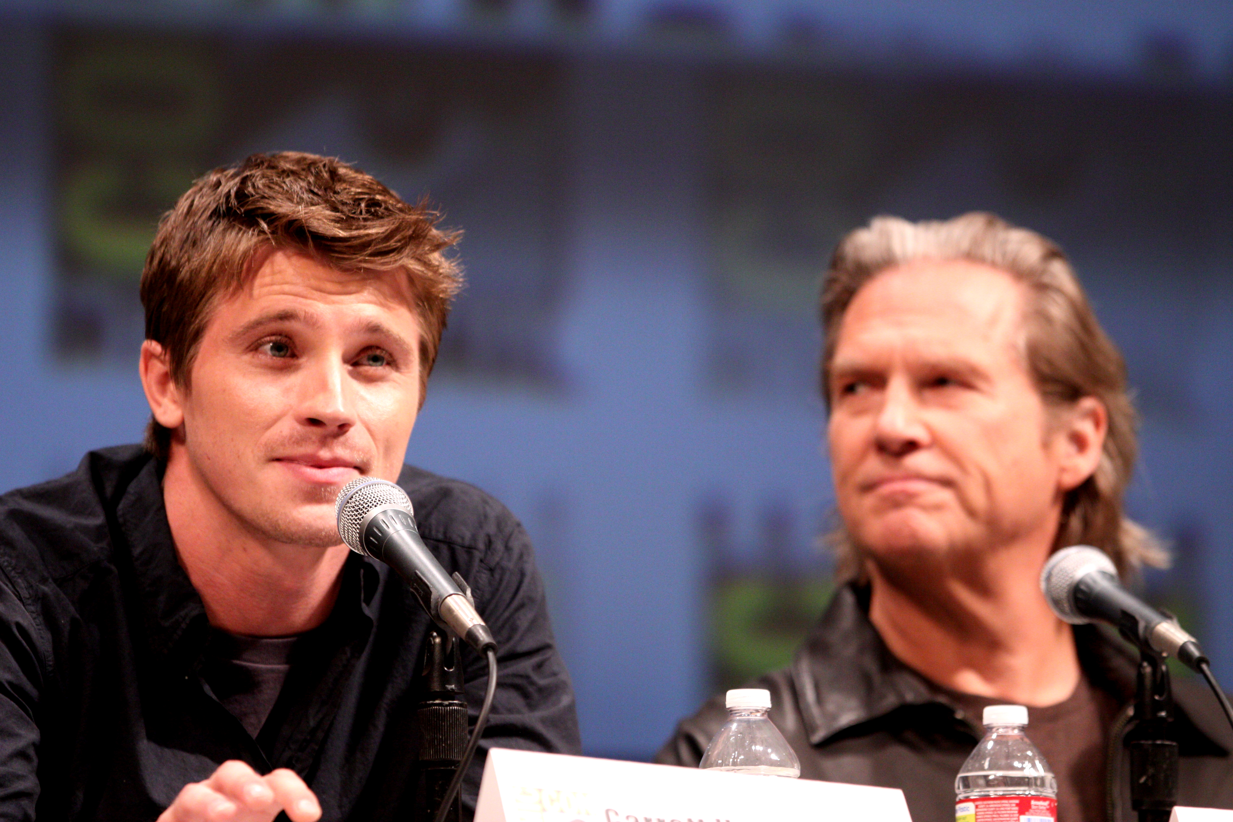 Garrett Hedlund (left) and Jeff Bridges (right) at the 2010 Comic Con in San Diego